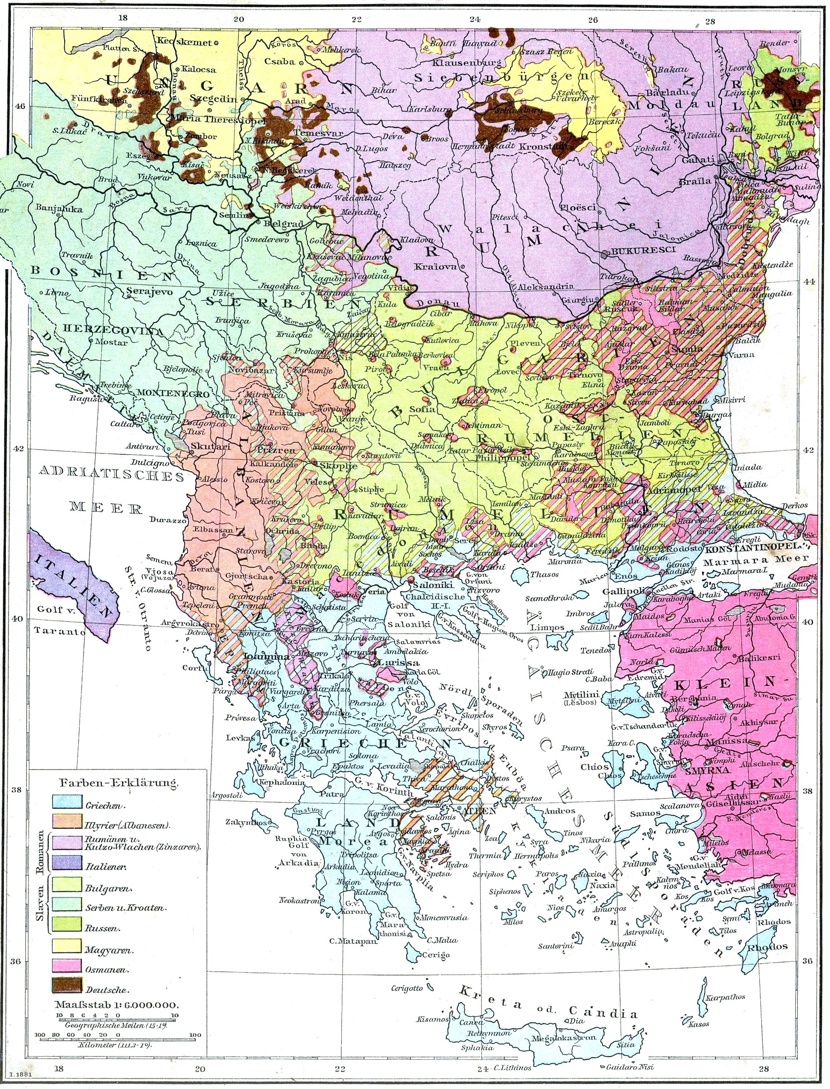 Peoples at the Balkan Peninsula